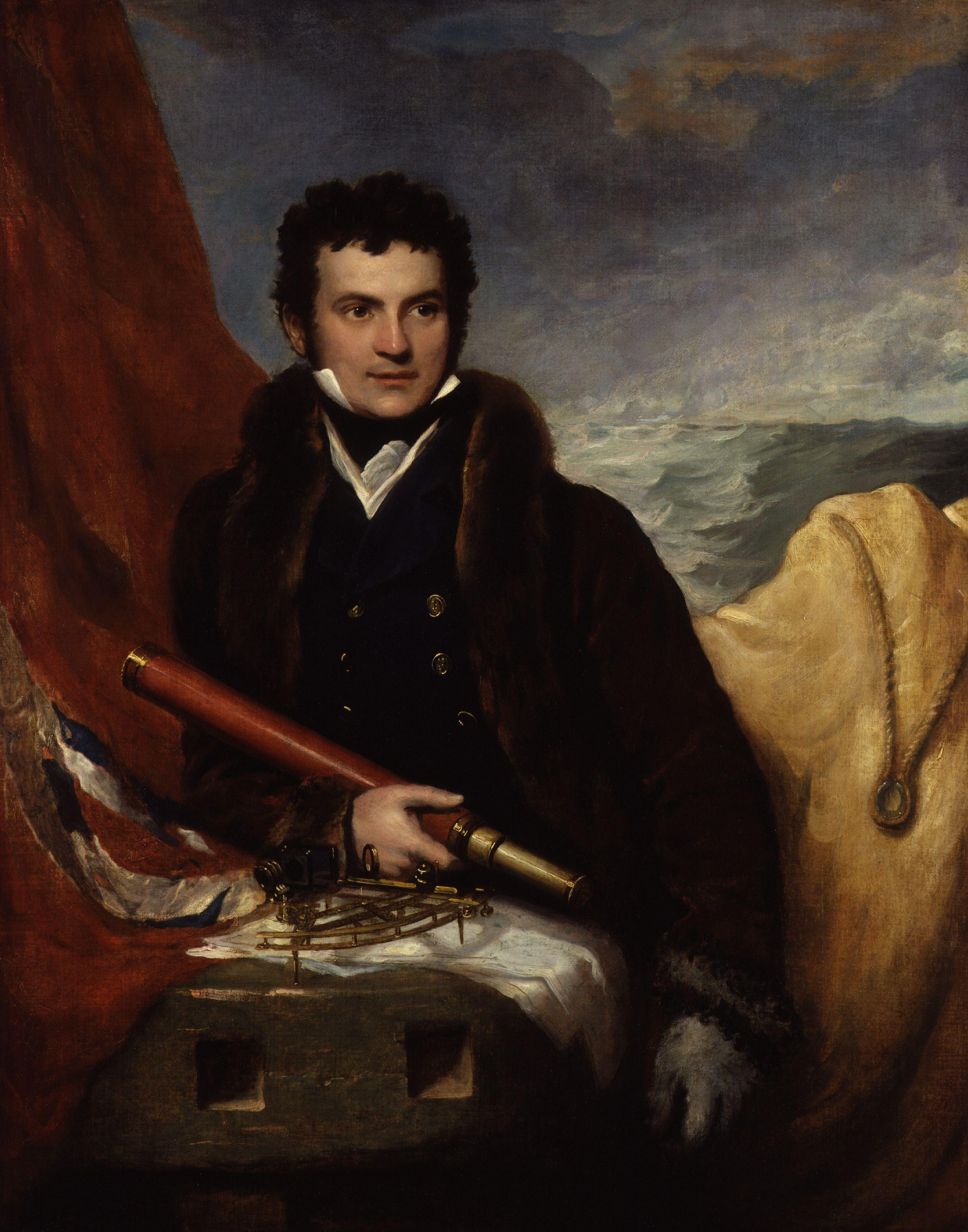 Sir William Edward Parry, by Samuel Drummond (died 1844). All images in this batch have been confirmed as author died before 1939 according to the official death date listed by the NPG.